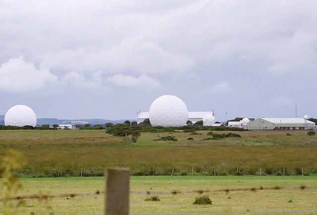 West Freugh Airfield Radar Domes at this airfield which if we are to believe the MOD is disused.